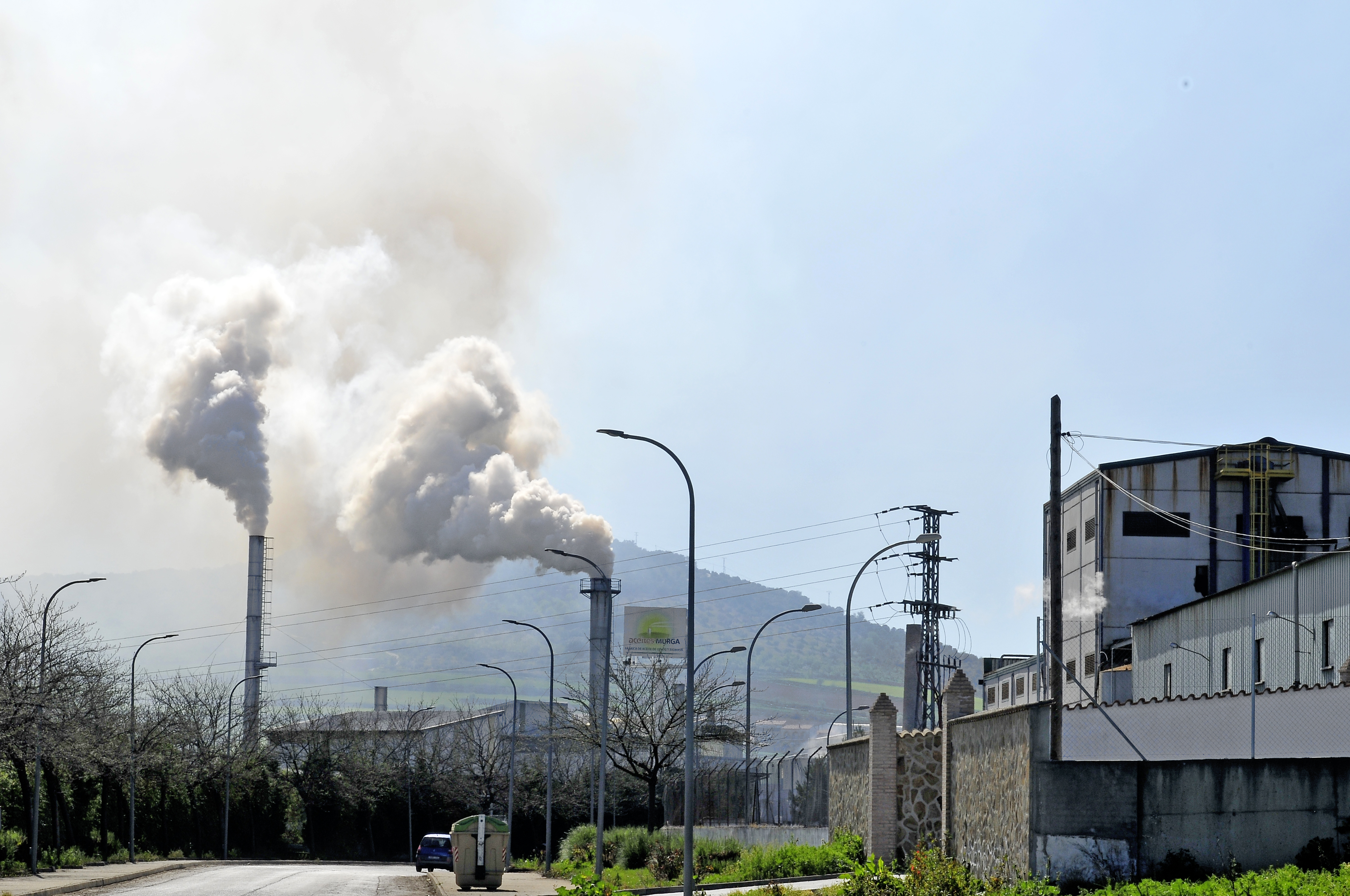 Olive pomace treatment factory. Los Navalmorales, Toledo, Castile-La Mancha, Spain